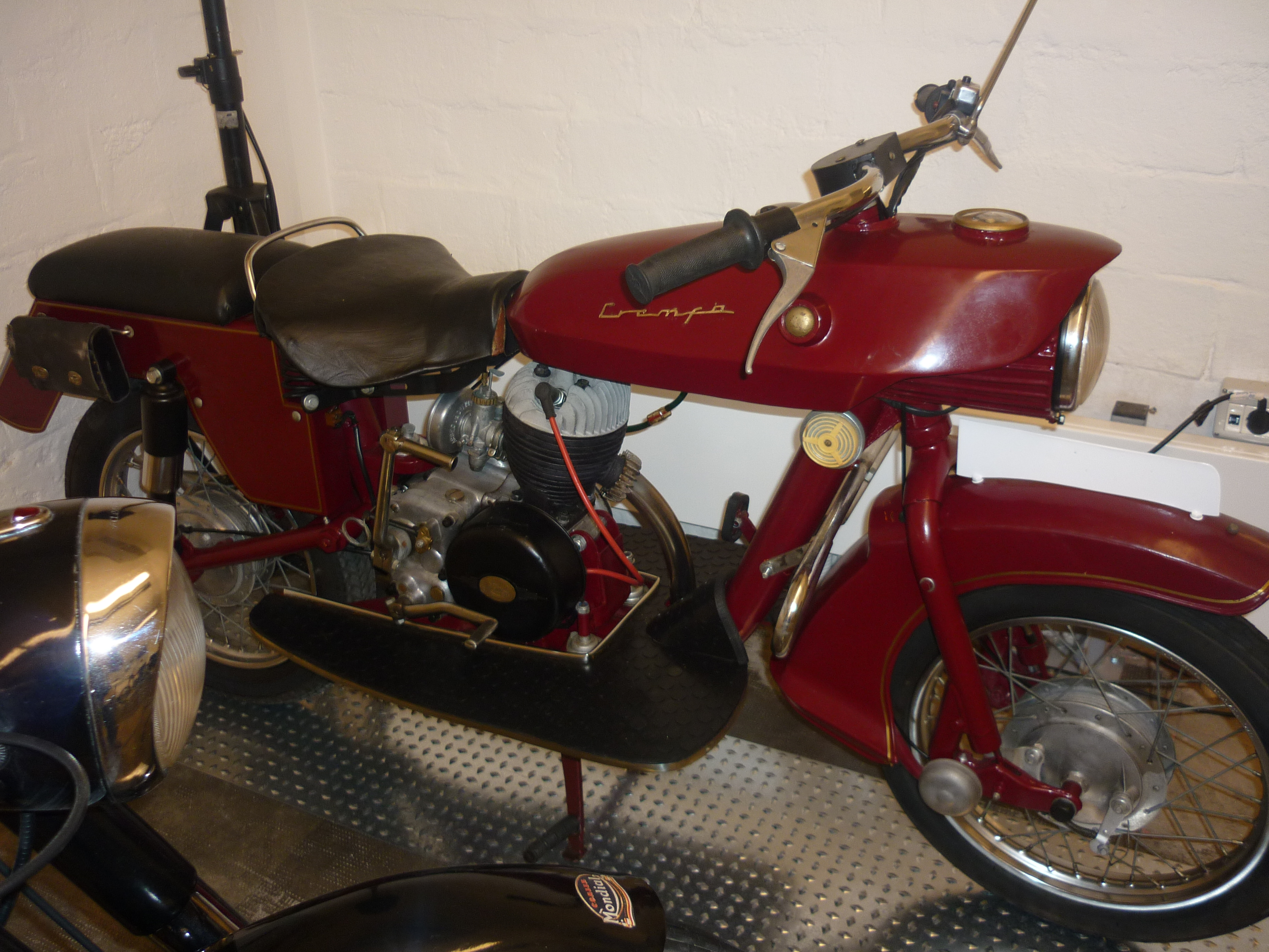 Cremsa Rally 200cc (1960). Museu de la Moto de Barcelona (Catalonia).